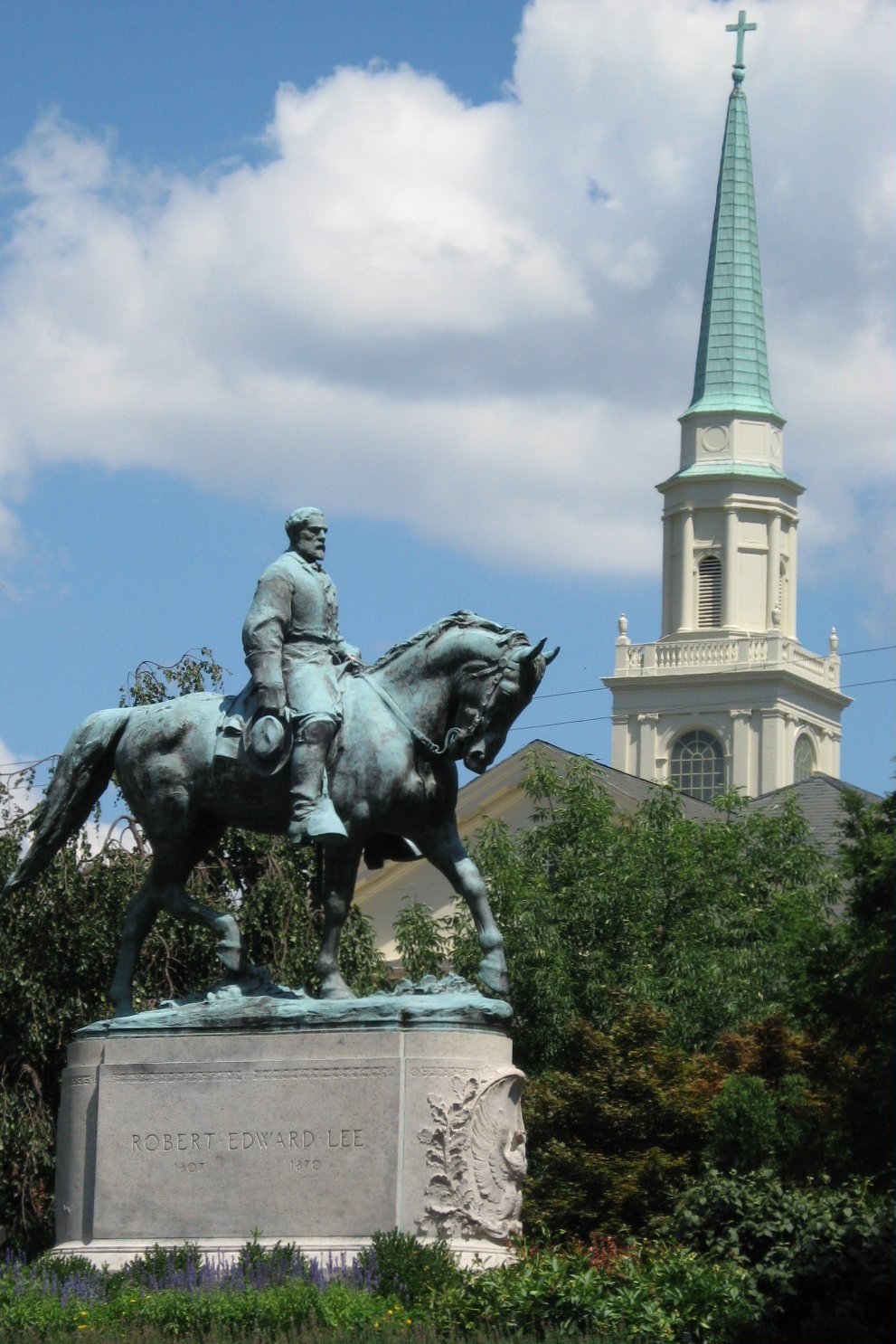 Bronze equestrian statue of Robert E. Lee and his horse Traveller in Market Street Park (formerly Emancipation Park) – known as Lee Park in 2008 – in Charlottesville, Virginia. First United Methodist Church steeple in the background. The Robert Edward Lee, commissioned in 1917 and dedicated in 1924, is located in the Charlottesville and Albemarle County Courthouse Historic District. The park was listed on the National Register of Historic Places in 1997.